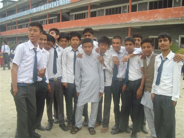 SLC Batch 2067 of Secondari Boarding School, Itahari Nepal